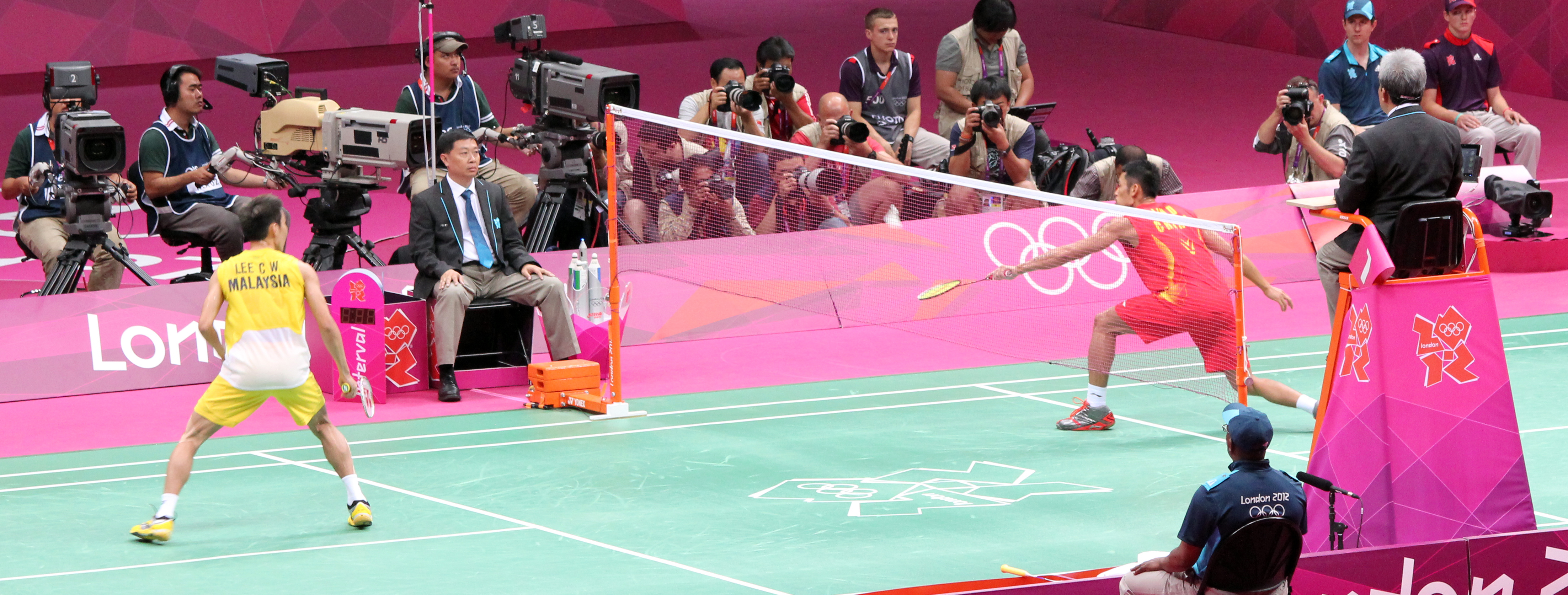 Mens badminton singles final between Lin Dan (China) and Lee Chong Wei (Malaysia) at the Wembley Arena, London 2012 Olympics